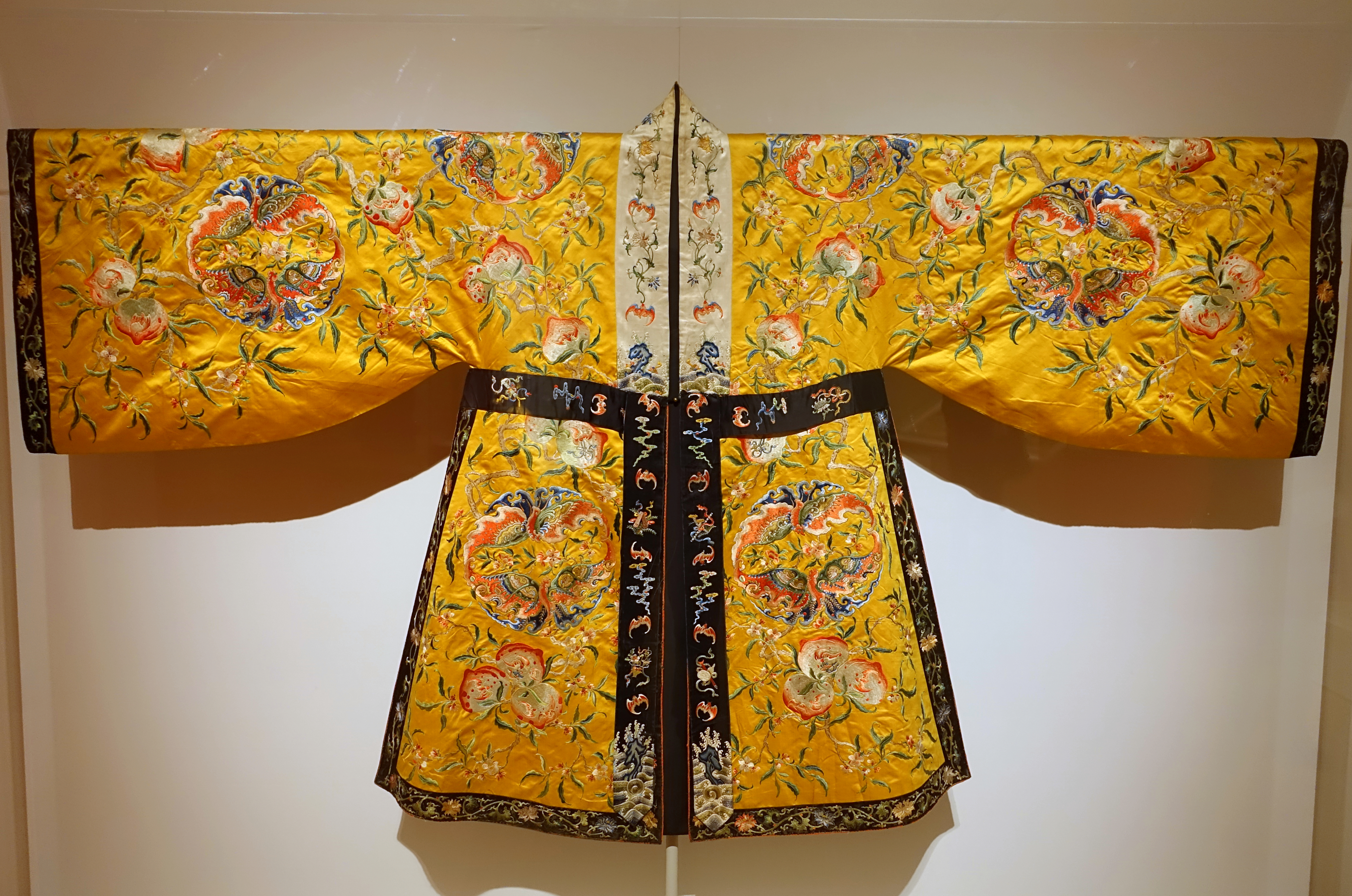 Exhibit in the Peabody Essex Museum - Salem, Massachusetts, USA.